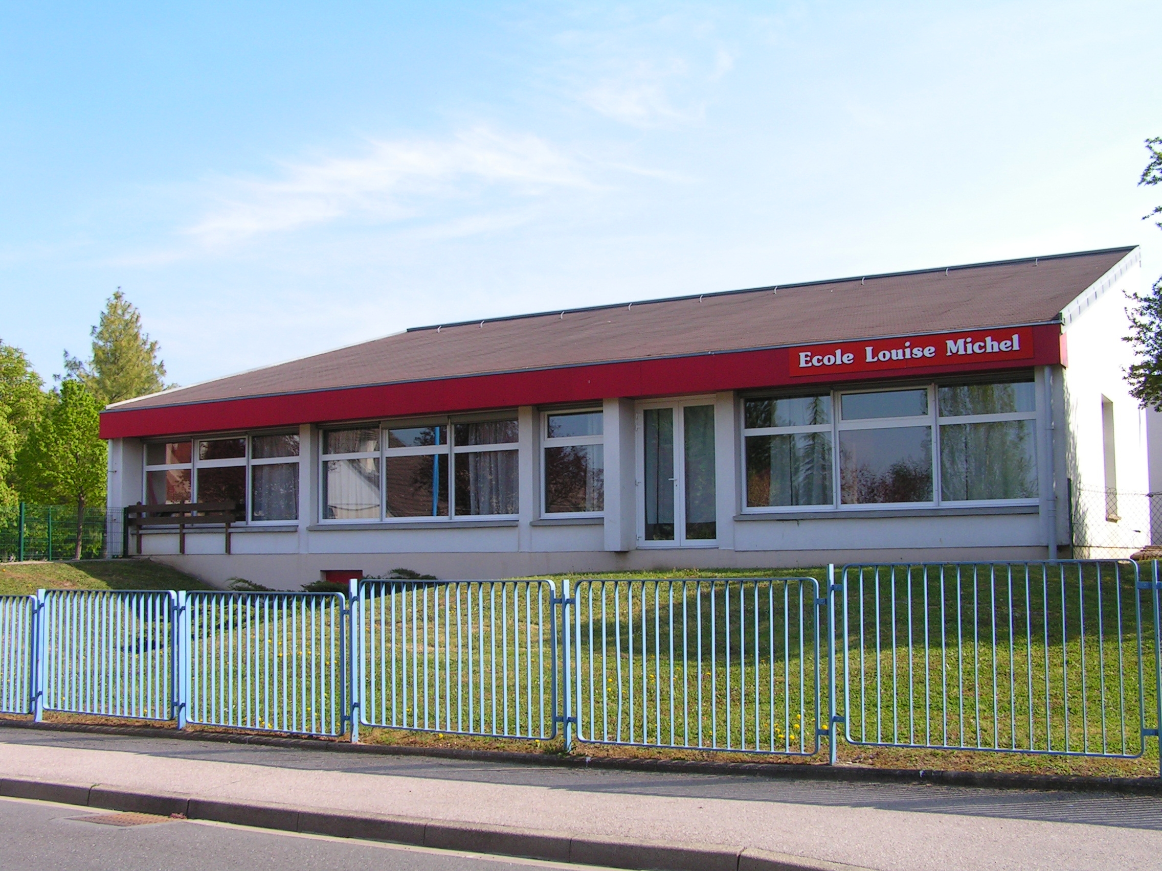 Louise Michel School, Seichamps, Meurthe-et-Moselle, France